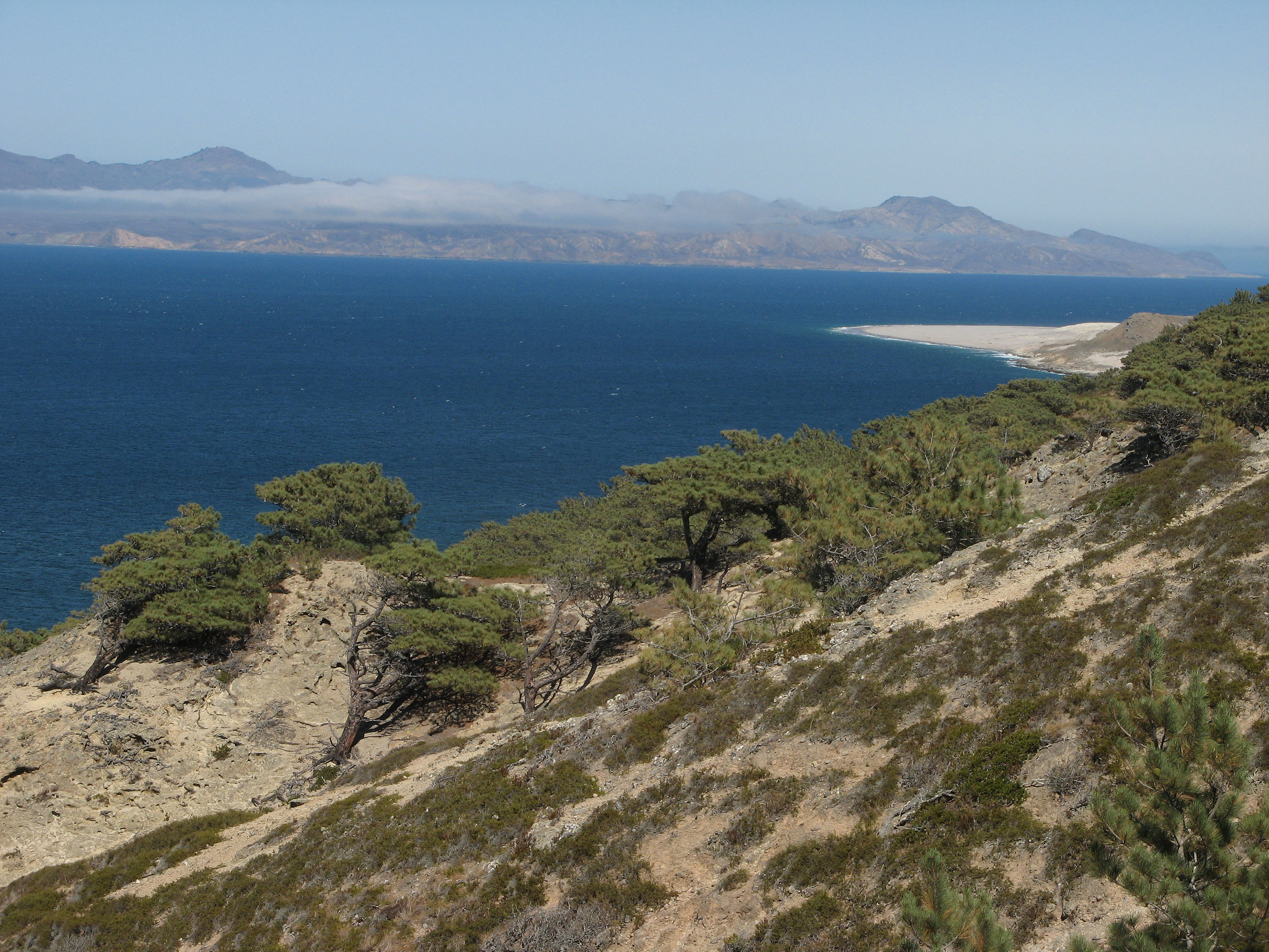 A grove of Pinus torreyana var. insularis (Torrey pines) on Santa Rosa Island, in Channel Islands National Park. This is an endemic tree of several of the Channel Islands and the coastal sage and chaparral sub-ecoregion.